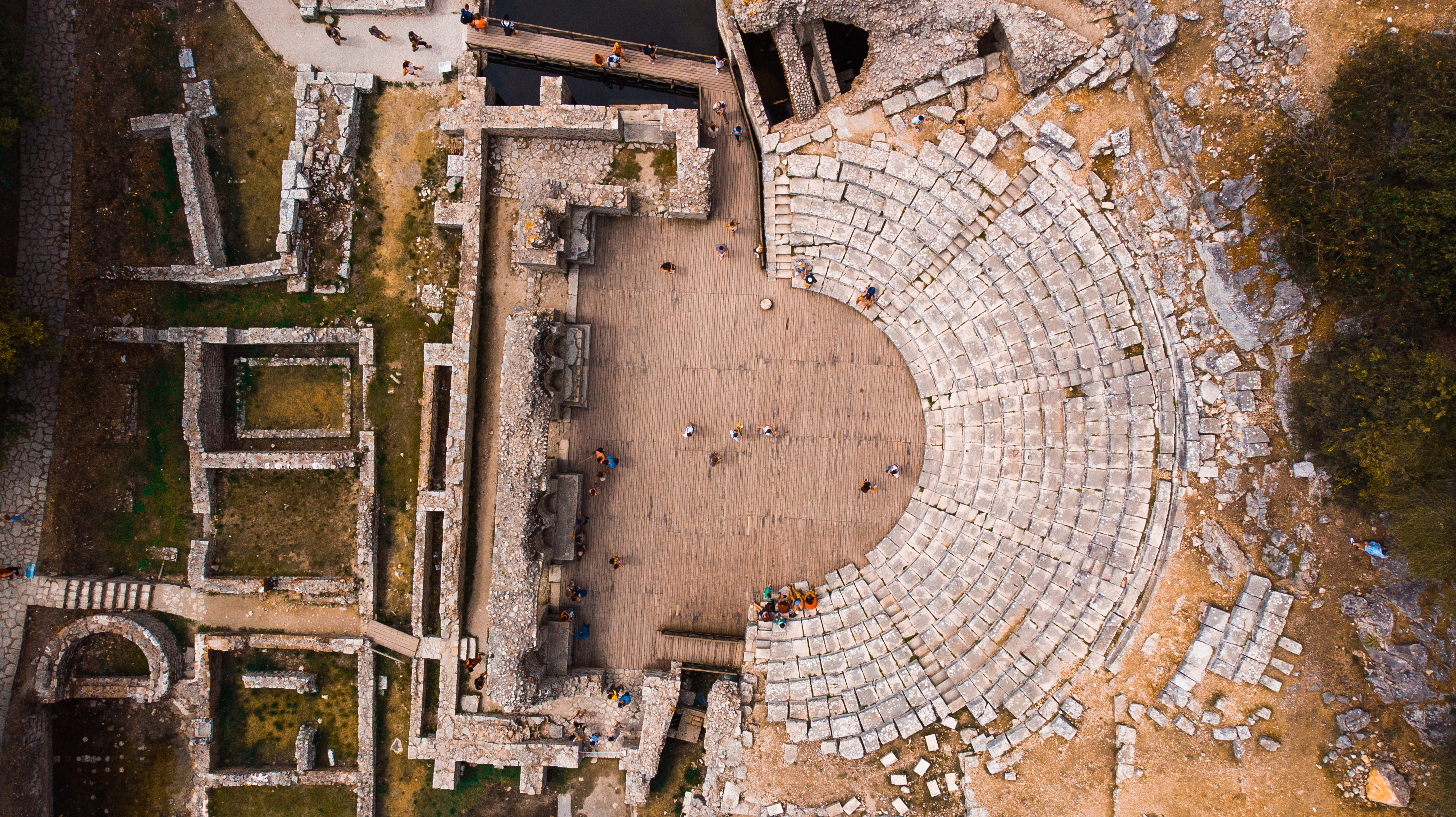 Butrint Theater in South Albania